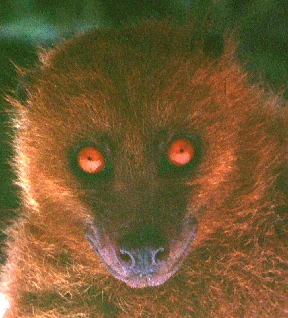 Male Fijian Monkey-faced Bat (Mirimiri acrodonta), summit of Mt. Koroturaga in Taveuni, Fiji; 1977 May 3.